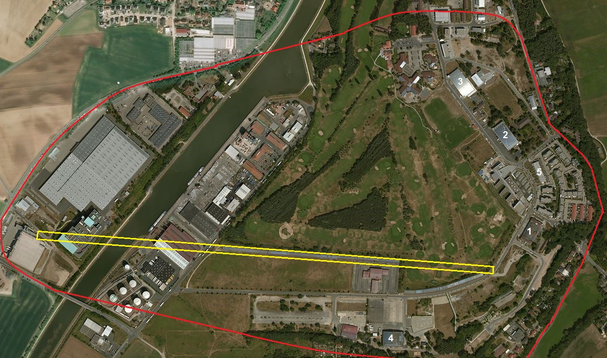 Fürth Atzenhof Airfield/Motheith Barracks